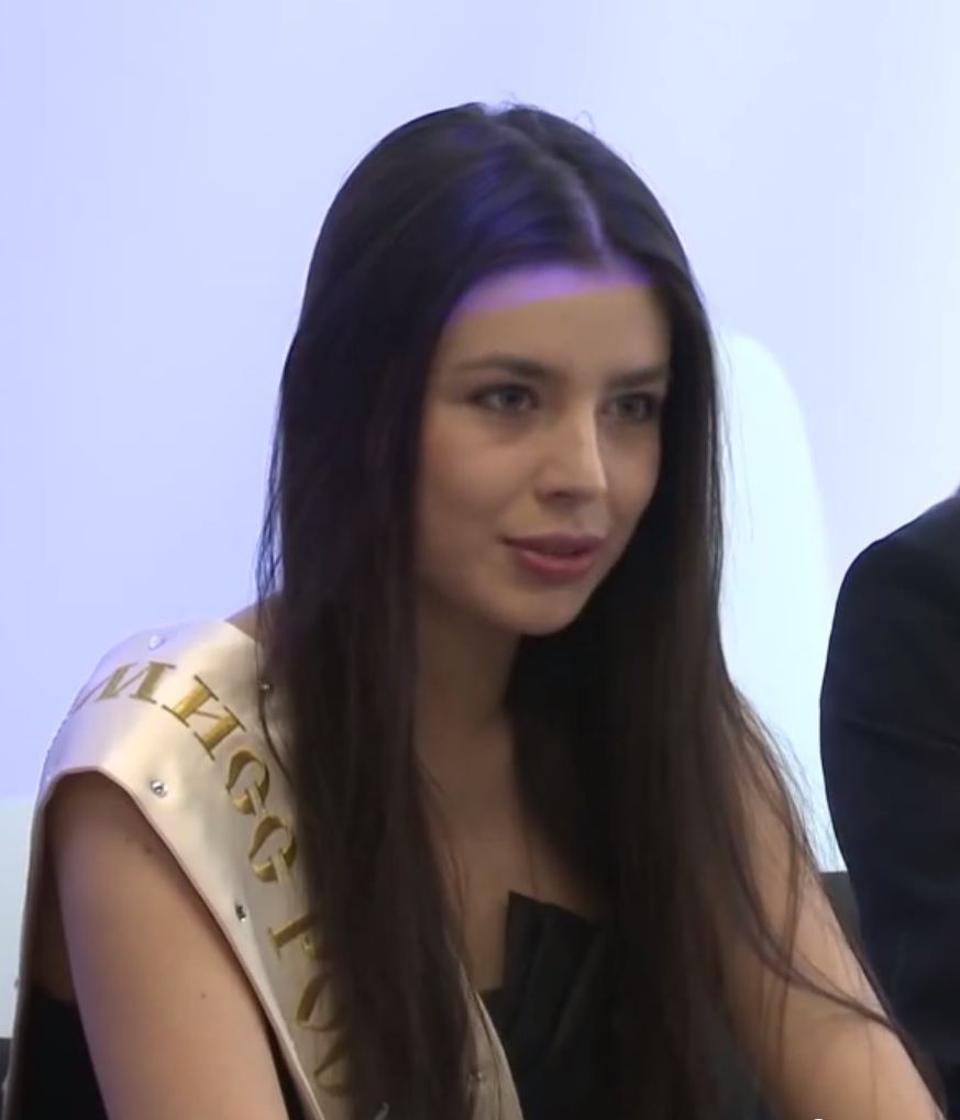 Elmira Abdrazakova, Kazakhstani-Russian model and beauty pageant titleholder who was crowned Miss Russia 2013 and represented her country at the Miss Universe 2013 and Miss World 2013 pageants.